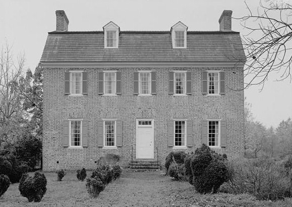 Price House, Intersection of SC Routes 199, 200 & 86, Moore vicinity (Spartanburg County, South Carolina) - cropped This file comes from the Historic American Buildings Survey (HABS), Historic American Engineering Record (HAER) or Historic American Landscapes Survey (HALS). These are programs of the National Park Service established for the purpose of documenting historic places. Records consist of measured drawings, archival photographs, and written reports. When reusing please credit: Library of Congress, Prints & Photographs Division, SC,42-MOO.V,1-2 This tag does not indicate the copyright status of the attached work. A normal copyright tag is still required. See Commons:Licensing. This work is in the public domain in the United States because it is a work prepared by an officer or employee of the United States Government as part of that person’s official duties under the terms of Title 17, Chapter 1, Section 105 of the US Code. Note: This only applies to original works of the Federal Government and not to the work of any individual U.S. state, territory, commonwealth, county, municipality, or any other subdivision. This template also does not apply to postage stamp designs published by the United States Postal Service since 1978. (See § 313.6(C)(1) of Compendium of U.S. Copyright Office Practices). It also does not apply to certain US coins; see The US Mint Terms of Use. This file has been identified as being free of known restrictions under copyright law, including all related and neighboring rights. This image or media file contains material based on a work of a National Park Service employee, created as part of that person's official duties. As a work of the U.S. federal government, such work is in the public domain in the United States. See the NPS website and NPS copyright policy for more information. Object location34° 46′ 33″ N, 81° 58′ 12″ W